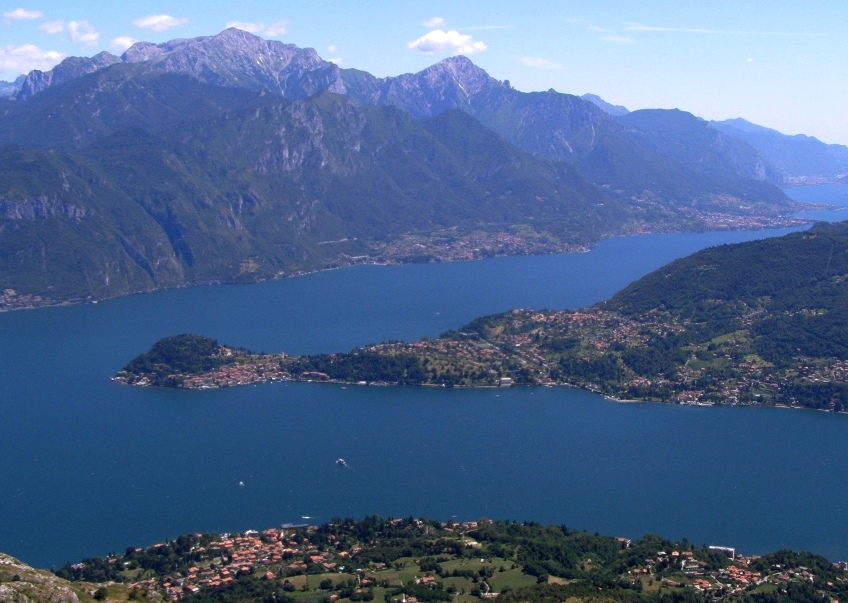 View of Lake Como (Italy).